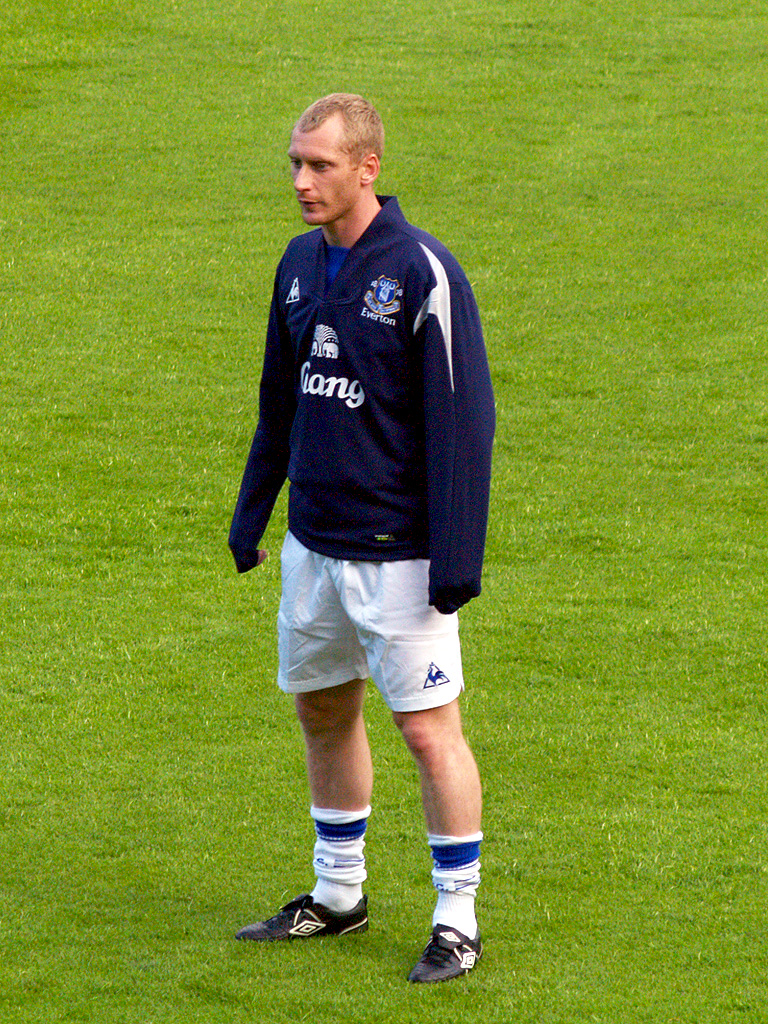 Everton FC defender Tony Hibbert during the warm up at Gigg Lane, home of Bury Football Club prior to the Bury vs. Everton friendly game. Friday 10th July 2009